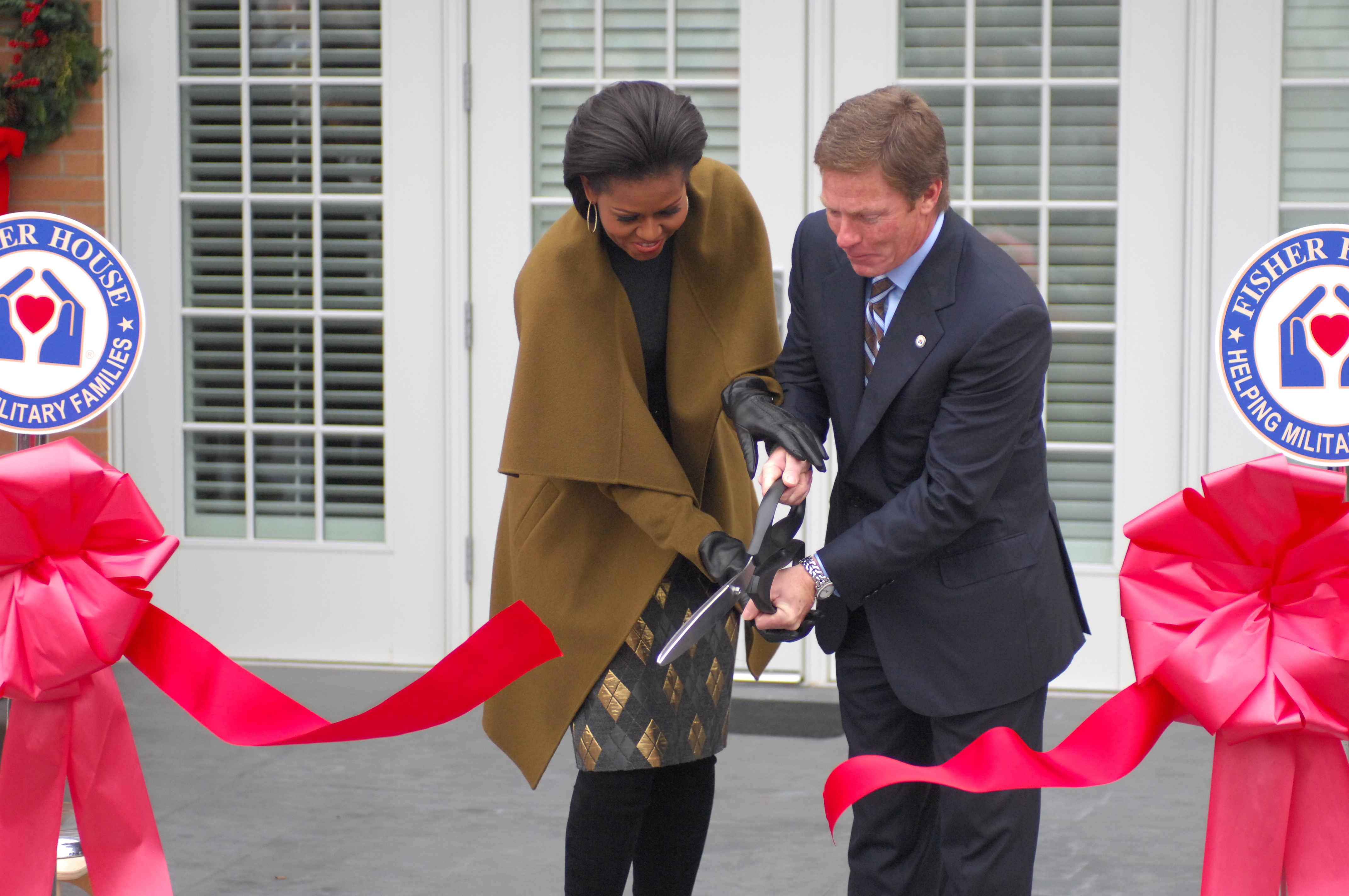 BETHESDA, Md. (Dec. 2, 2010) First lady Michelle Obama and Fisher House Foundation Chairman Ken Fisher cut a ribbon during a dedication ceremony for the first of three new Fisher Houses at the National Naval Medical Center. The new houses will be in addition to the two houses currently on campus. (U.S. Navy photo by Cat DeBinder/Released)